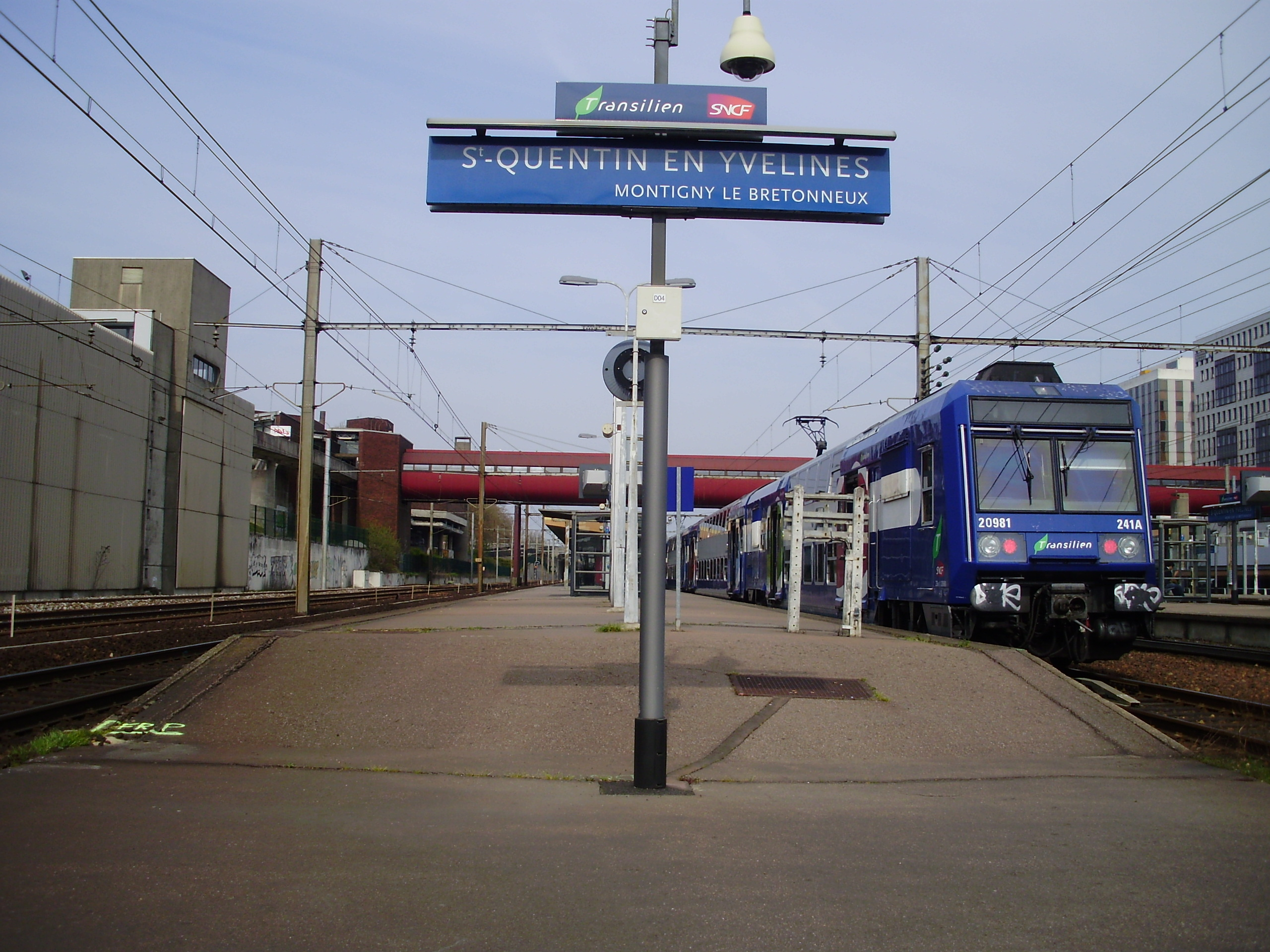 Saint-Quentin-en-Yvelines - Montigny-le-Bretonneux station, Yvelines, France, view of the platforms since south-west extremity